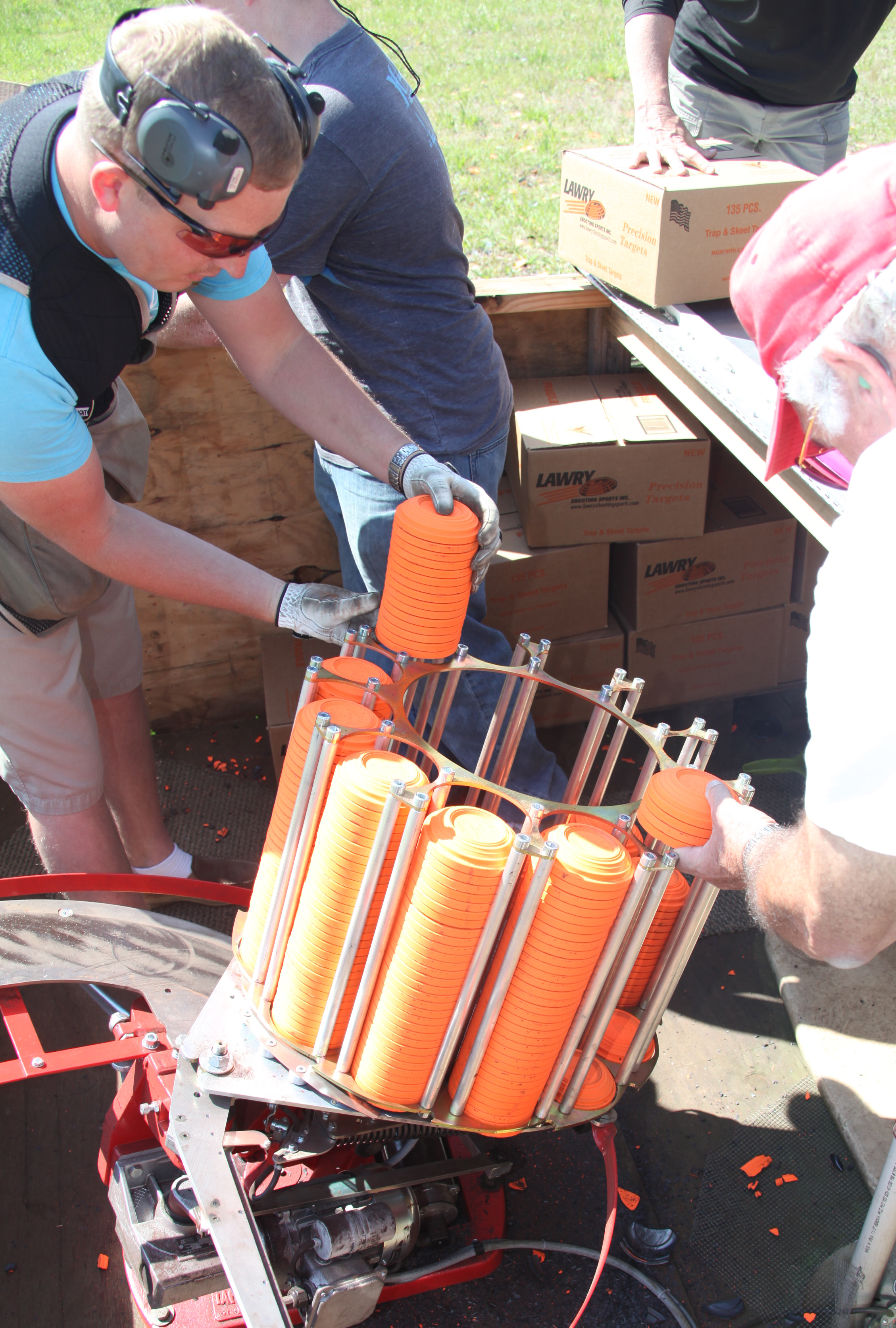 Jared M. Sberal, an active duty Marine and member of the skeet club member, loads stacks of clay pigeons into a launcher during the Marine Corps Air Station Cherry Point Skeet Club Spring Family Fun Shoot at the air station shotgun range April 14. The clay pigeon gets its name from the early use of these small orange targets, which people use as target practice for bird hunting.